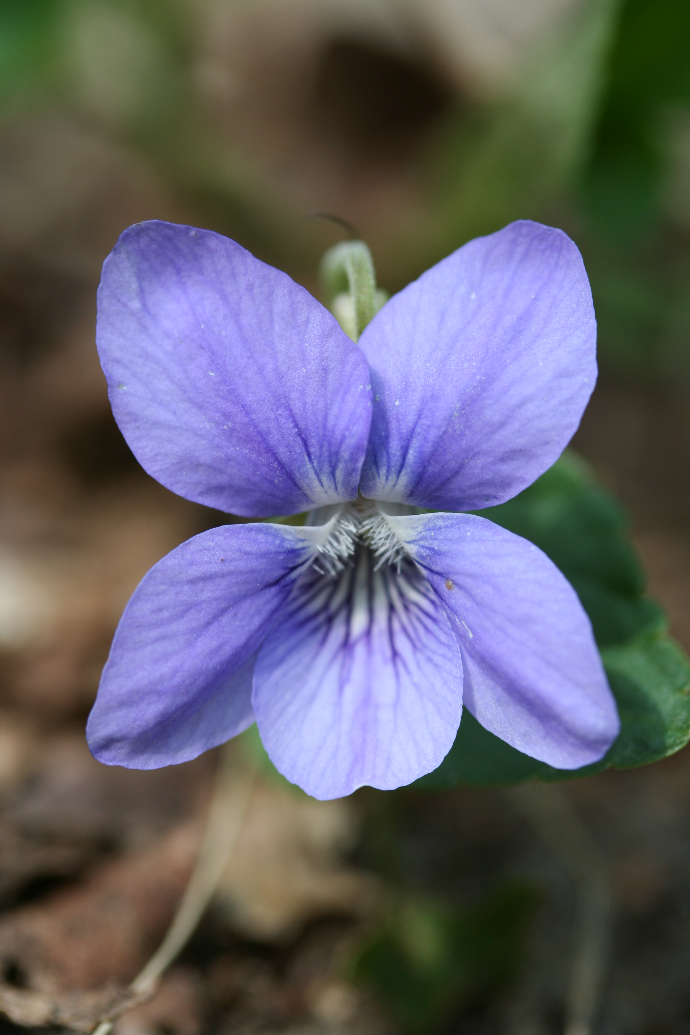 Viola riviniana 6 may 2006 IJmuiden, the Netherlands